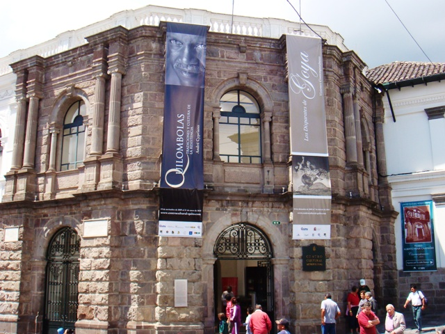 Alberto Mena Caamaño Museum, Quito.